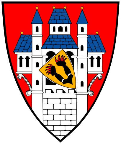 Hoya received town rights in the early 14th century and the oldest seals date from the same time. The seals showed the two bear claws of the Counts of Hoya (see the district arms). After 1400 the seals showed a castle with a small shield, showing the bear claws. Even though the size and shape of the castle and claws changed considerably during the centuries, the composition as such remained the same.